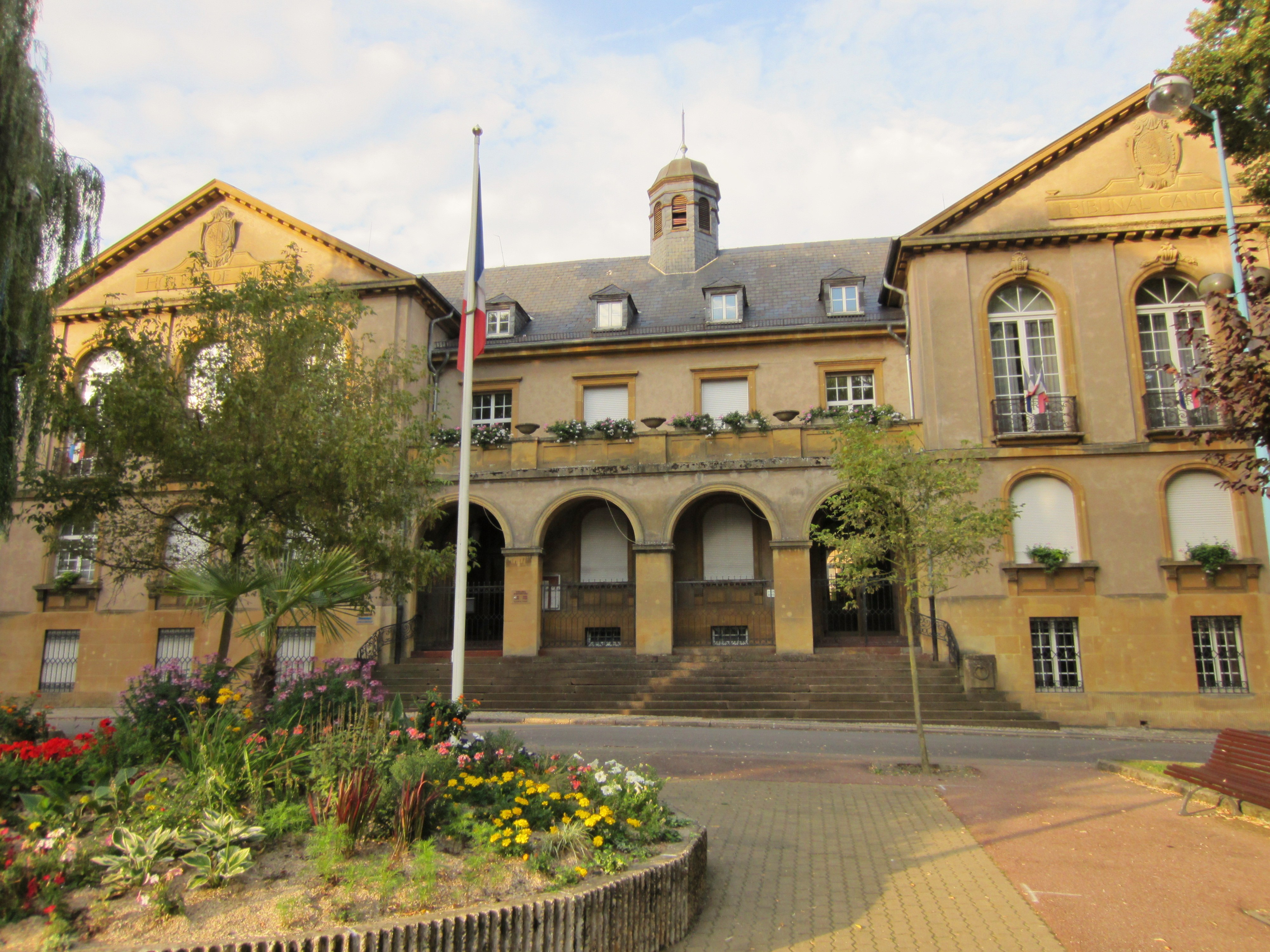 Description mairie Ars Moselle Date2 September 2011Sourcemon appareil photoAuthorAimelaimePermission (Reusing this file) mairie Ars Moselle